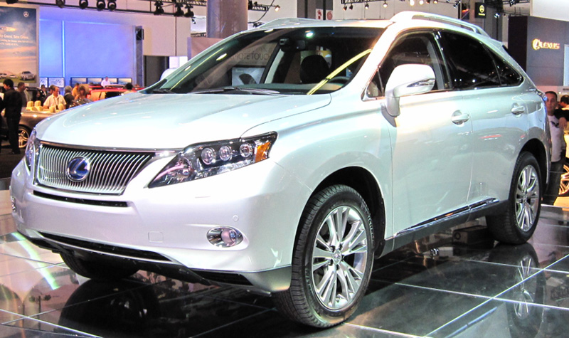 Lexus RX 450h, hybrid, at Los Angeles Auto Show